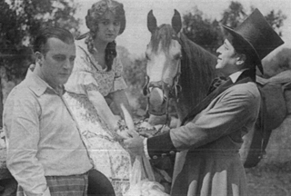 Screenshot from the film Break! Break! Break!